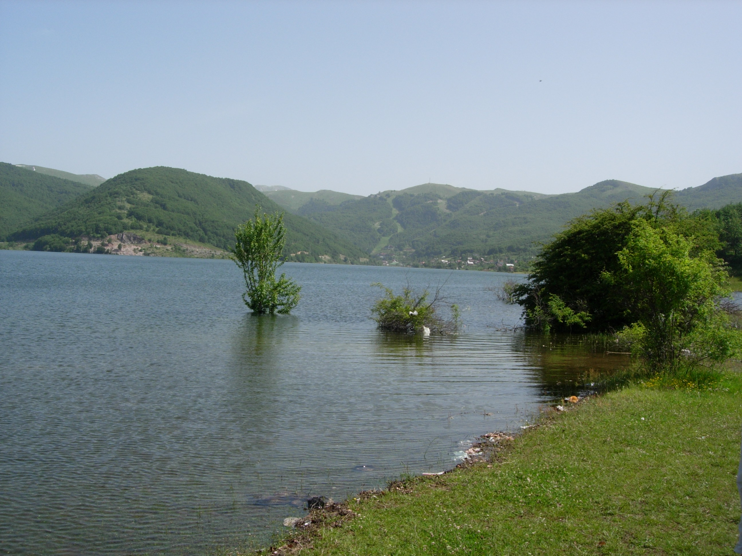 Artificial Mavrovo Lake in the Republic of Macedonia with the village of Mavrovo at the back